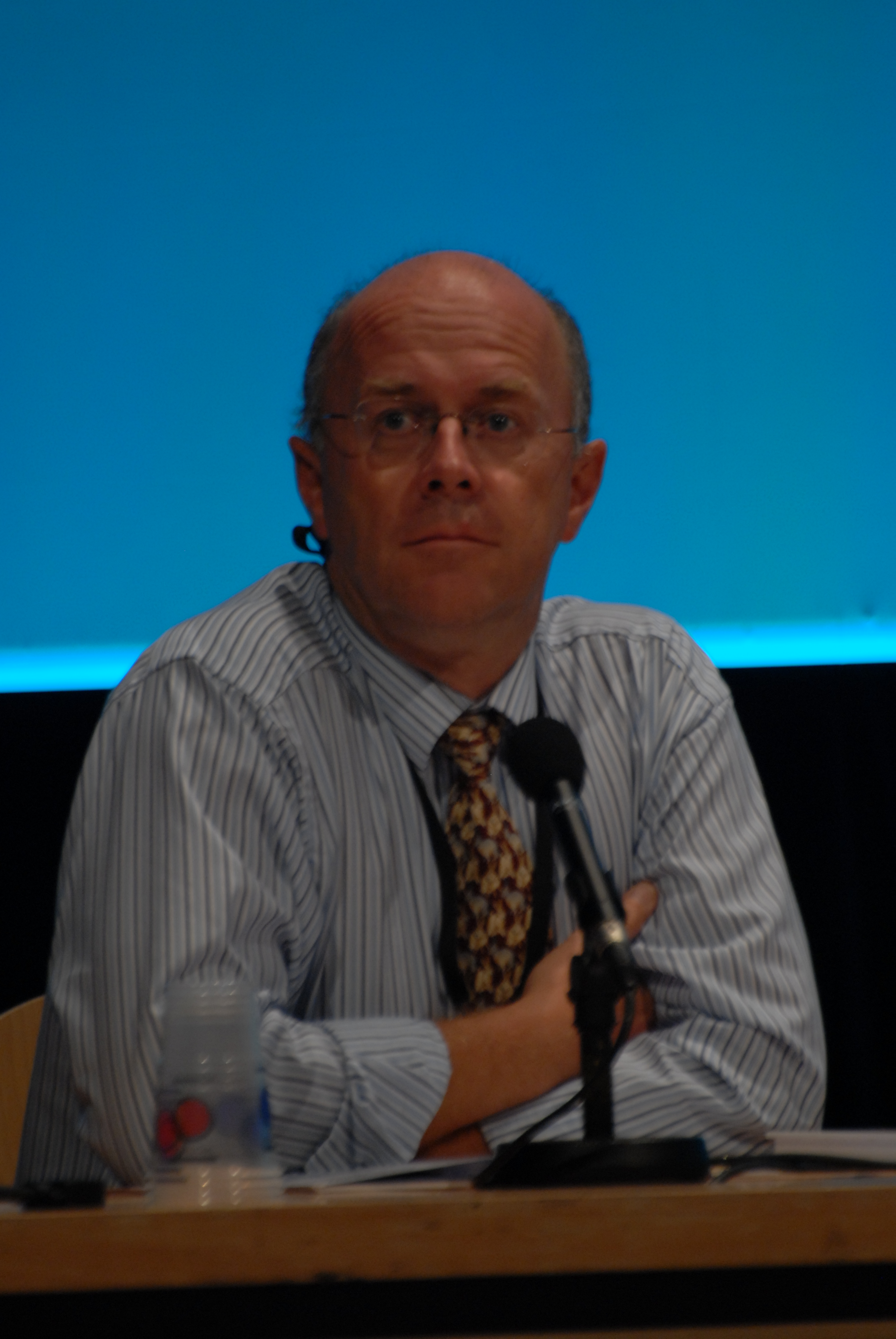 Andreas Manz at the 11th International Conference on Miniaturized Systems for Chemistry and Life Sciences (µTAS 2007 Conference).